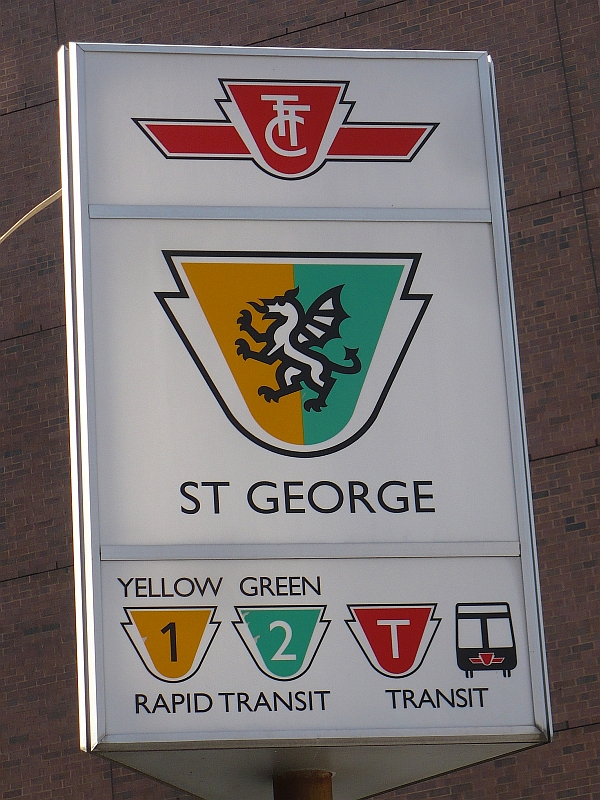 Experimental sign outside St. George subway station in Toronto